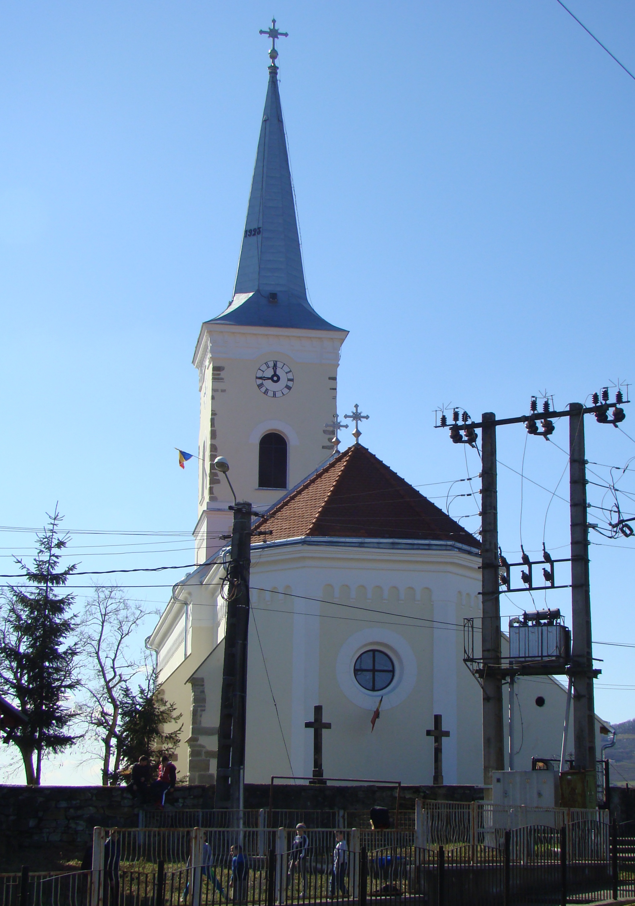 Church of the Saints Archangels in Unirea, Bistrița-Năsăud county, Romania